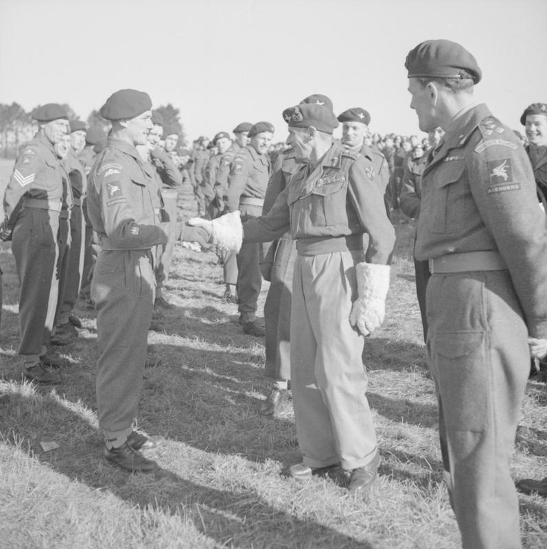 The British Army in the United Kingdom 1939-45 General Montgomery greets RSM A Parsons of 8 (Midland Counties) Parachute Battalion during an inspection of 6th Airborne Division at Bulford, 8 March 1944.